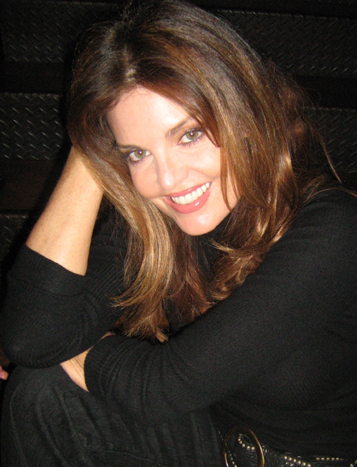 American actress Tracy Scoggins. Picture taken 19 April 2008 at Armageddon Pulp Culture Expo in Wellington, New Zealand.